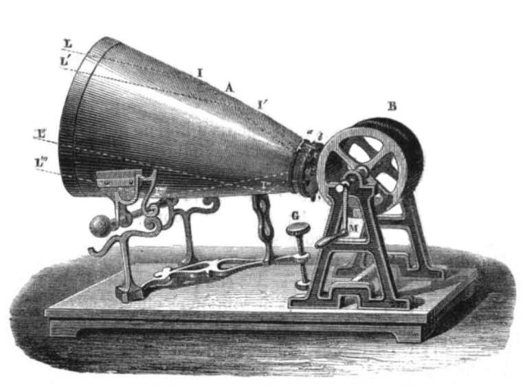 A phonautograph, designed by Édouard-Léon Scott de Martinville and built by Rudolph Koenig